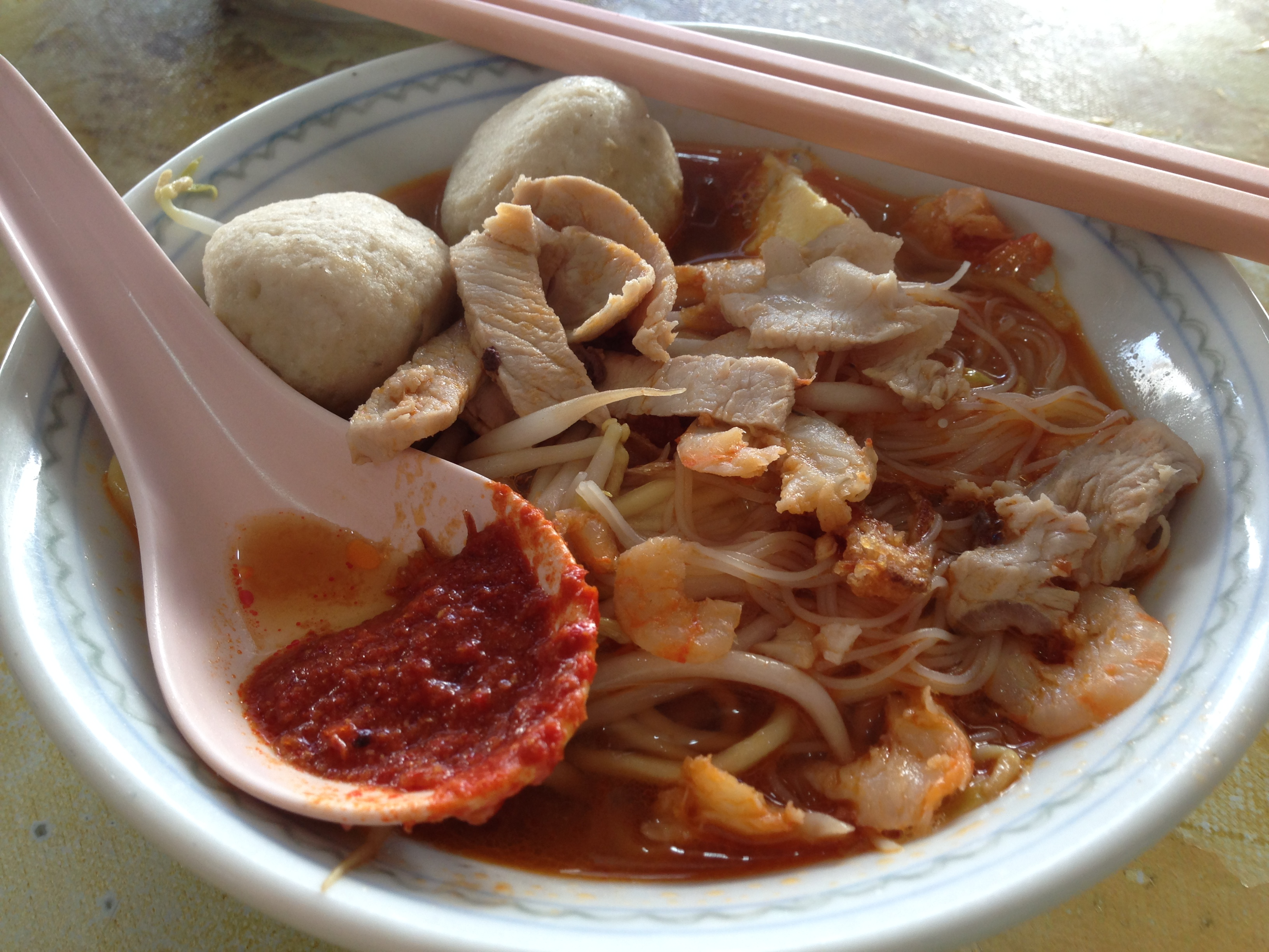 A bowl of Penang Hokkien Prawn Noodles or Hokkien Mee